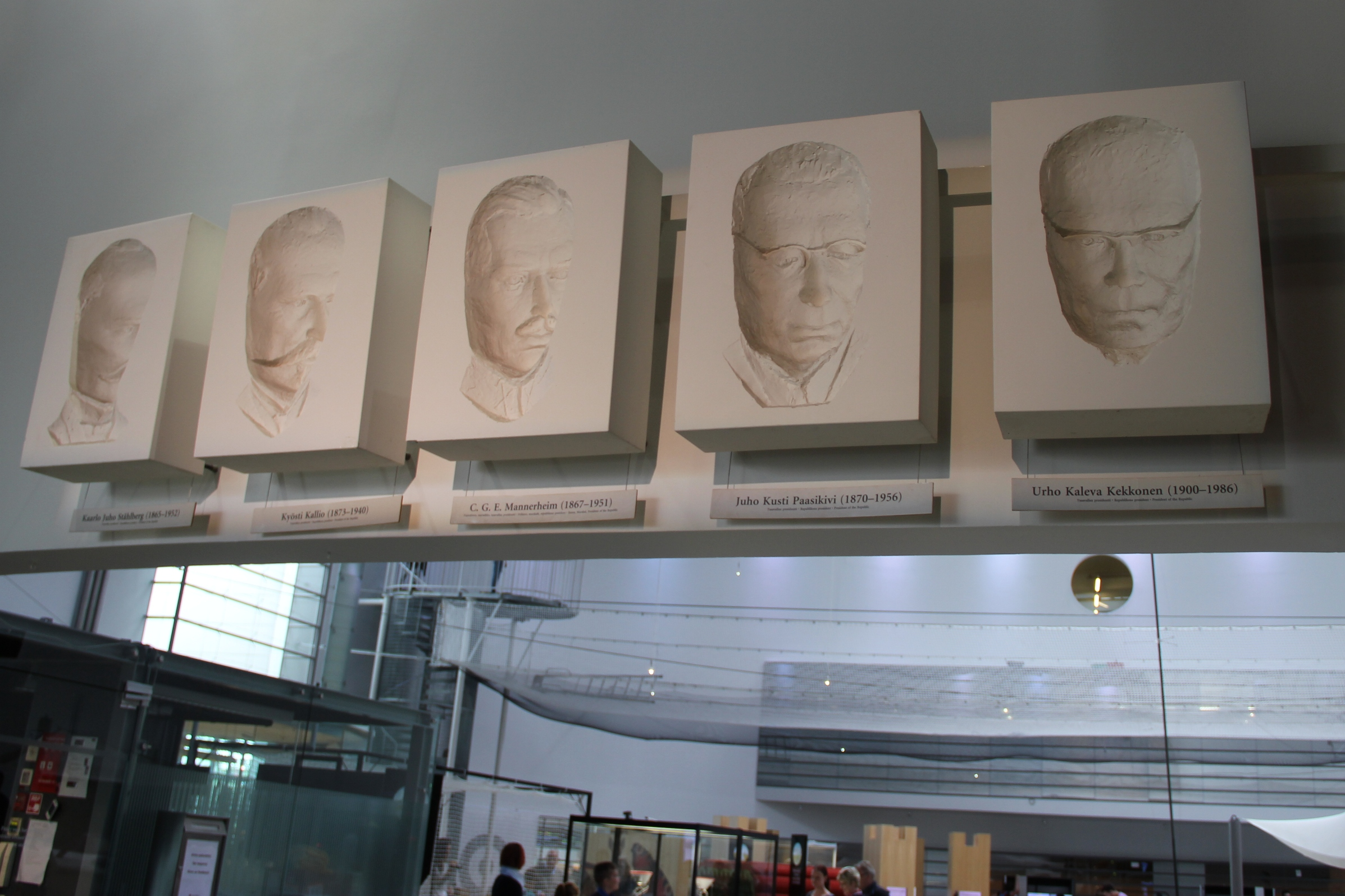 Turning faces of the presidents.